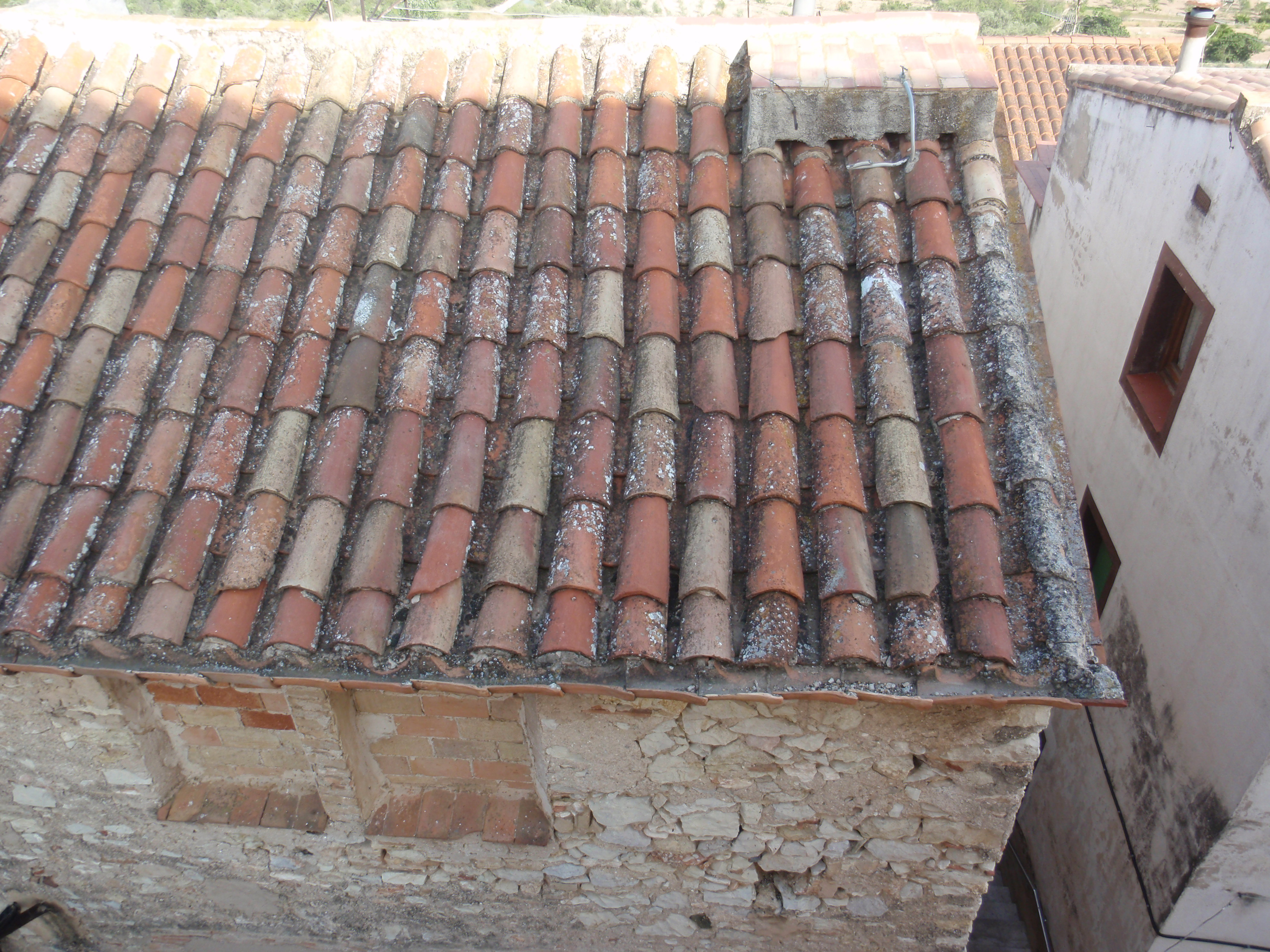 [en] The "tortugues" (turtles) are tilted more curved than ordinary tiles with the T-shaped plant, which allows them to be placed at the end of a row of shingles and form the channel at the foot of the slope. The "turtles" channel is called "Tortugada". Photograph taken in Mas de Barberans, Montsià, Catalonia.